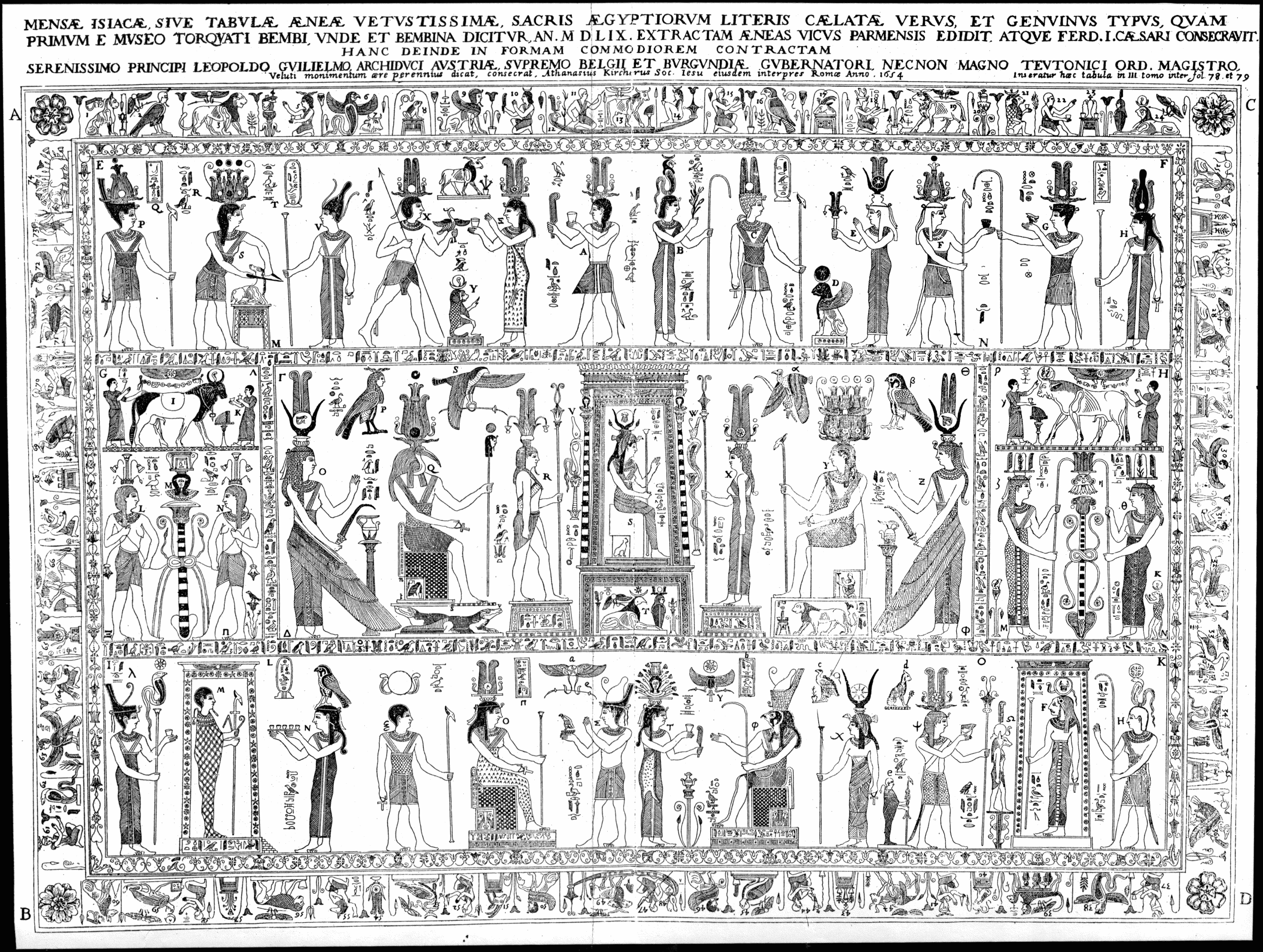 The Bembine Table of Isis from Athanasius Kircher's Œdipus Ægyptiacus. Mensa Isiaca N. Inv. C. 7155 Museo Egizio